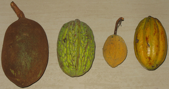 Roy Bateman, Fruits of 4 Theobroma species - taken at CRIG, Ghana